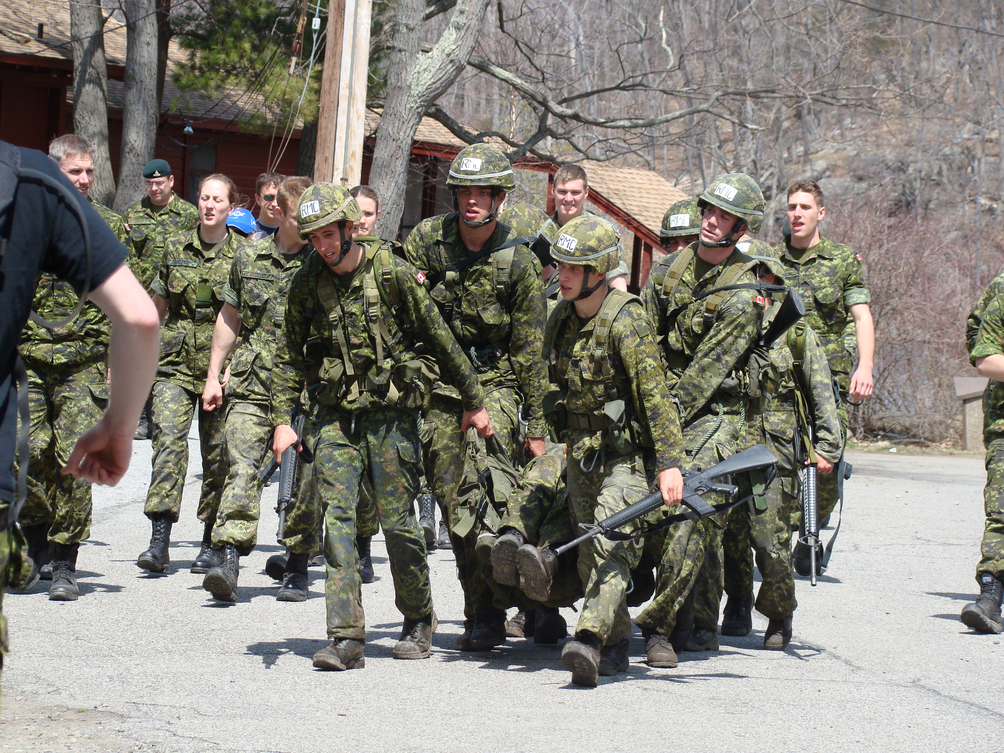 RMC's 2009 entry into the Sandhurst Competition during the combat litter carry event